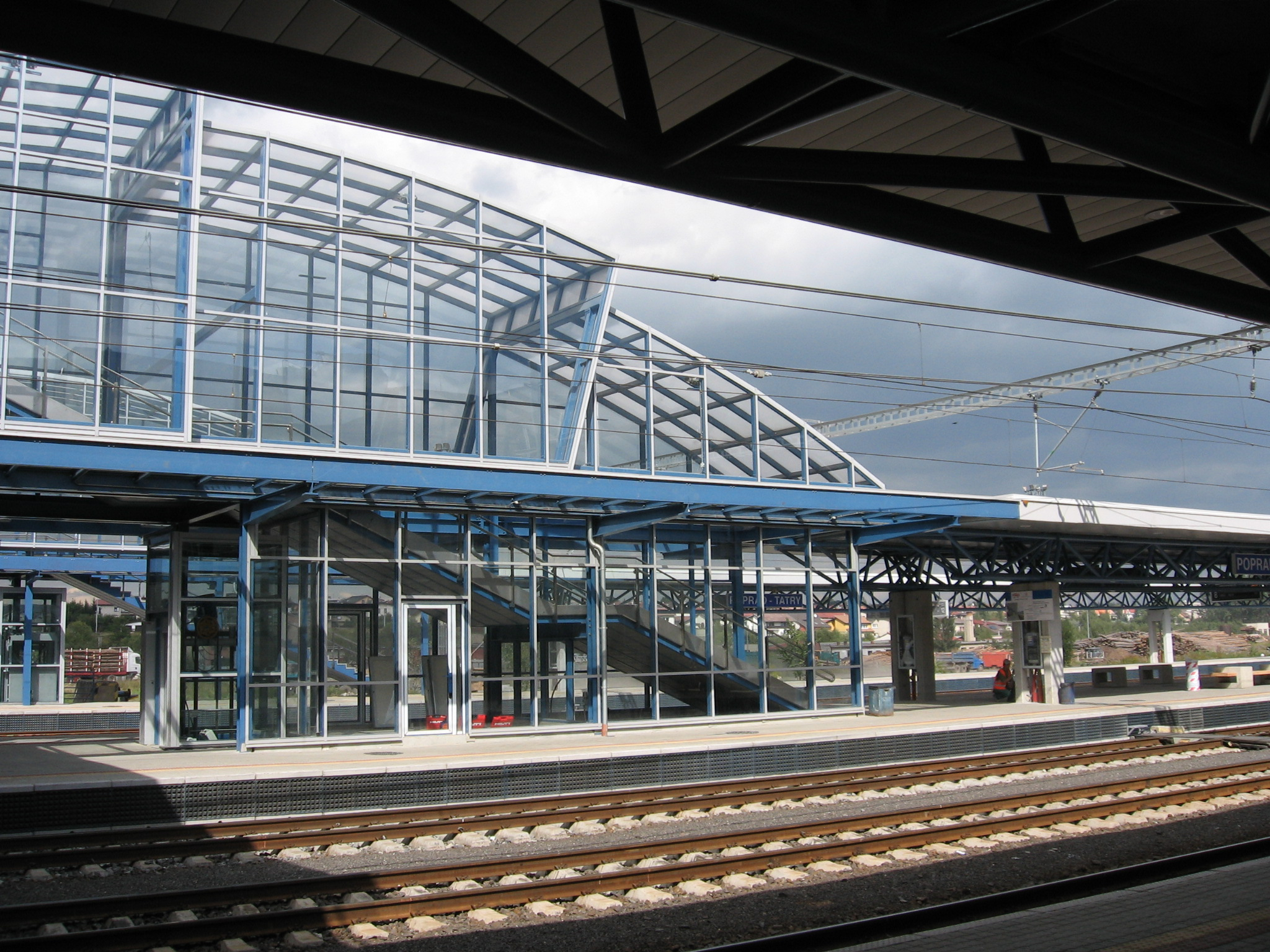 Railway station in Poprad-Tatry - reconstruction